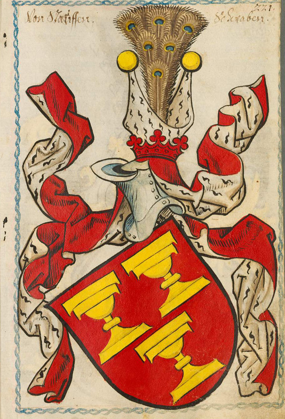 The canting coat of arms of the Lords of Staufen. The ancient german word "staufen" means mugs, chalices, goblets – used for communion). Some places the Lords of Staufen controlled also display the von Staufen coat of arms. It is currently used in Switzerland in Gemeinde Staufen[1] and Staufen, Aargau, found in Germany in the areas of Ballrechten-Dottingen and Pfaffenweiler, and was also in the former coat of arms of Wettelbrunn, Norsingen and Scherzingen. The coat of arms of the city of Staufen im Breisgau is derived from this coat of arms.